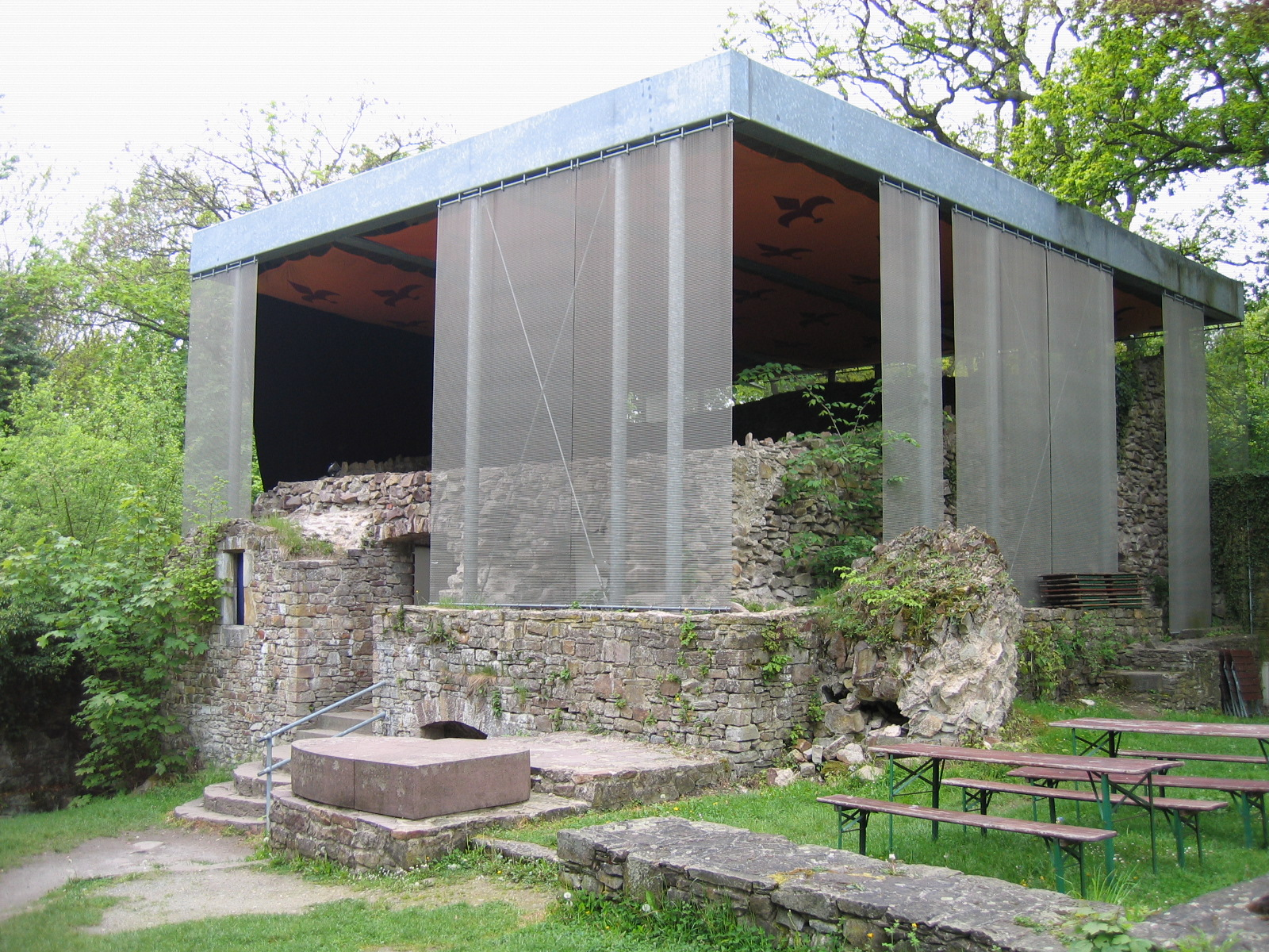 Ruin of Vlotho castle in Vlotho, District of Herford, North Rhine-Westphalia, Germany.